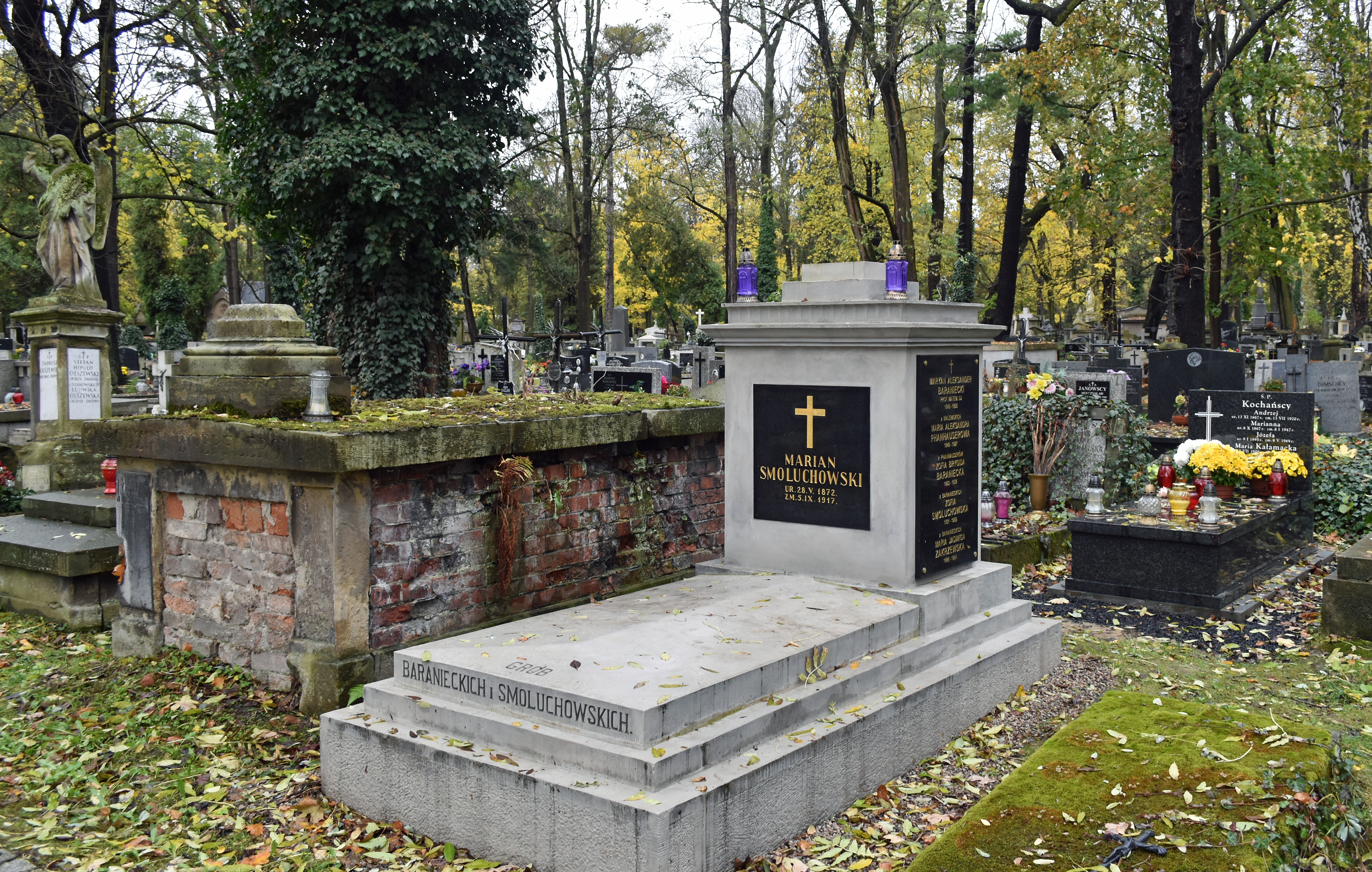 Rakowicki Cemetery, grave of Marian Smoluchowski (Polish physicist, pioneer of statistical physics and an avid mountaineer), 26 Rakowicka street, Kraków, Poland